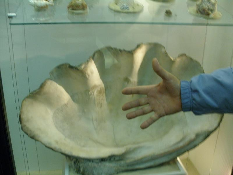 Half Giant clam (Tridacna gigas) and my Father's hand for comparison at the Natural History Museum in London, England.